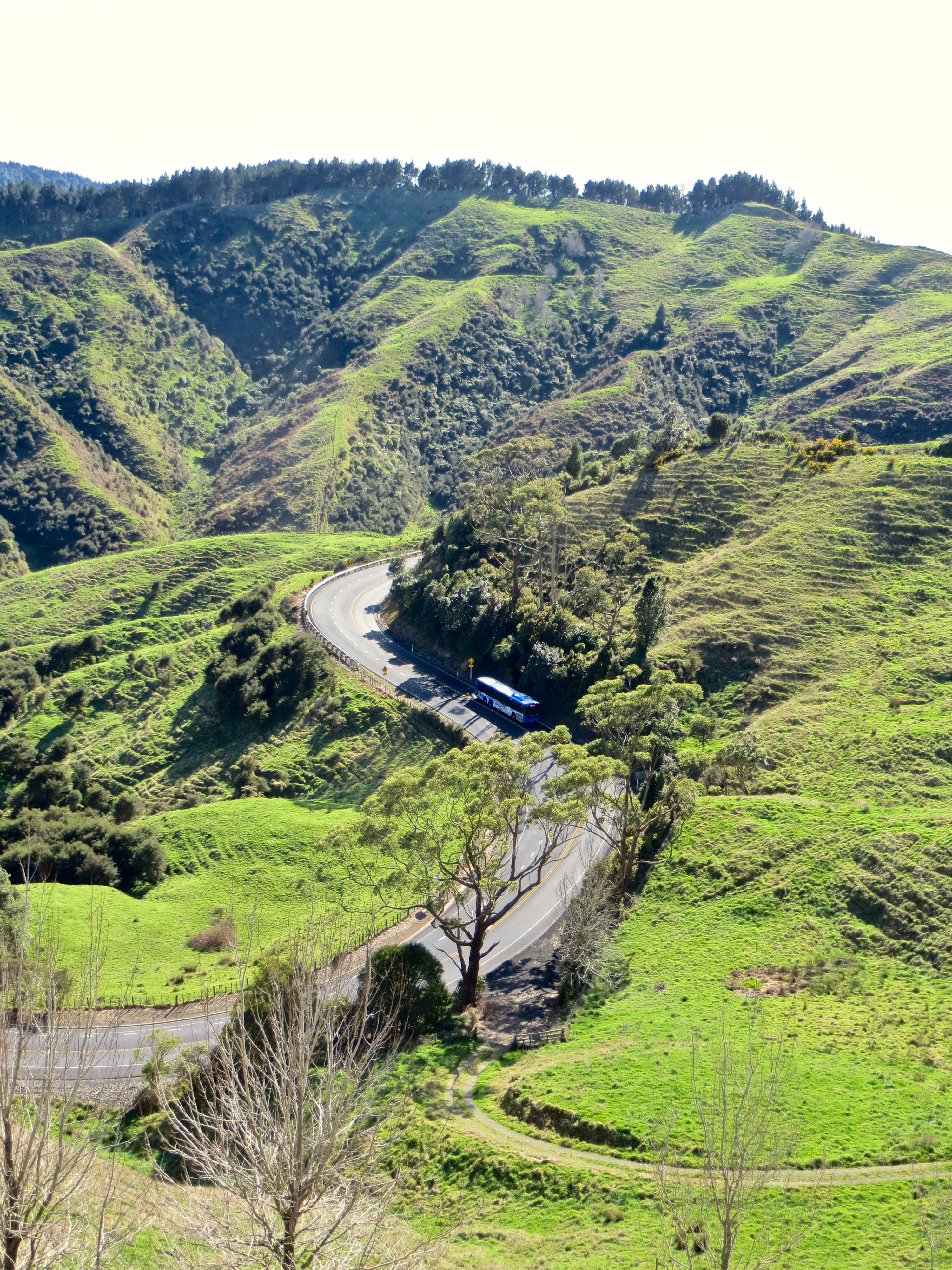 The summit is 200 metres. The road descends to 100m in just over a kilometre.